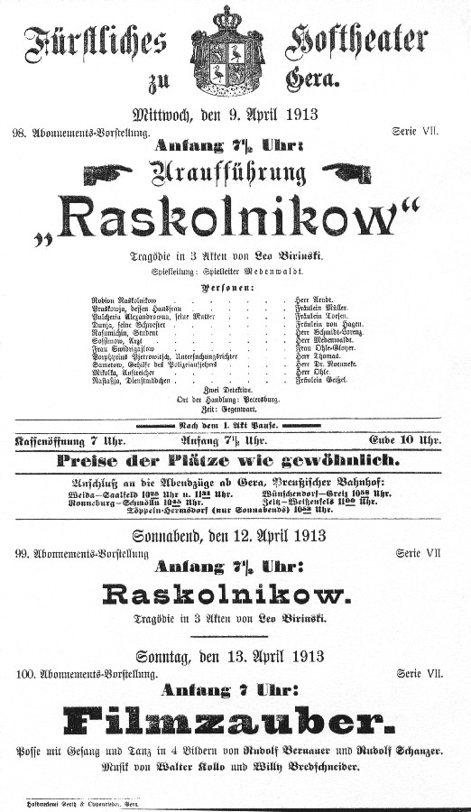 Poster for world premiere of Raskolnikow (1913).